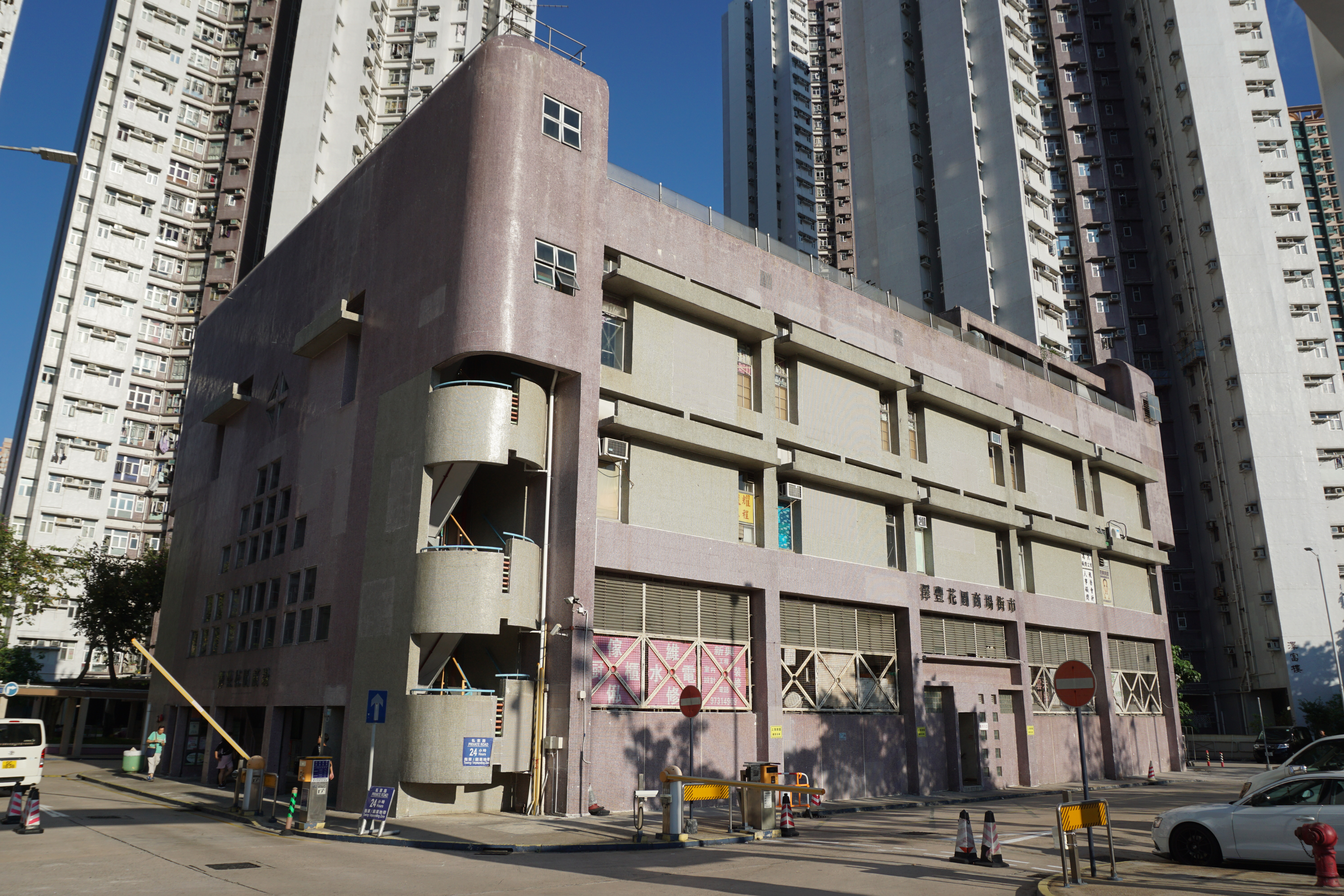 Affluence Garden in Tuen Mun, Hong Kong.